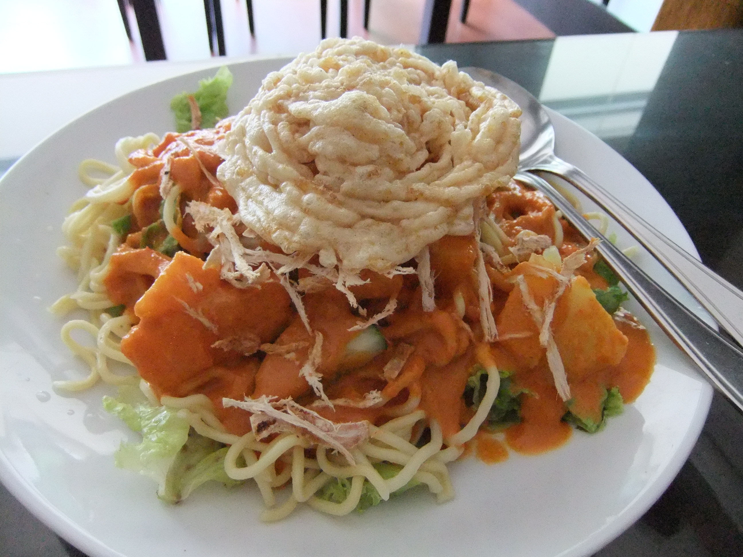 Rujak Juhi salad, cucumber, lettuce, tofu, potatoes served with juhi (shredded dried squid) and peanut sauce